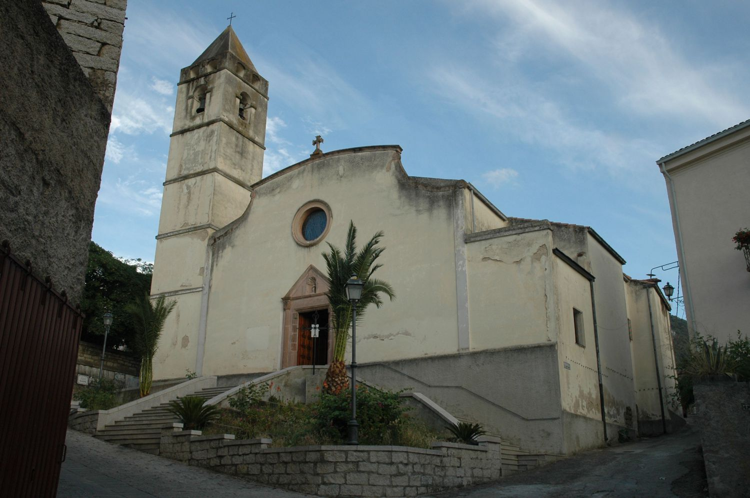 Olzai - Chiesa San Giovanni Battista